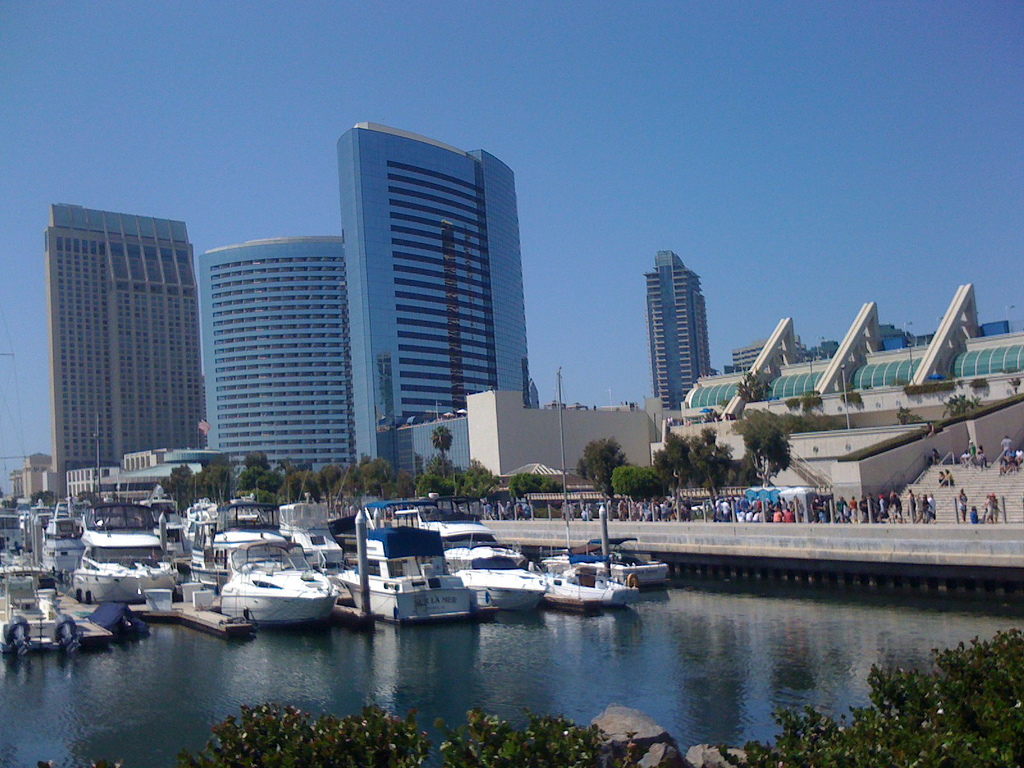 Marina, San Diego, California